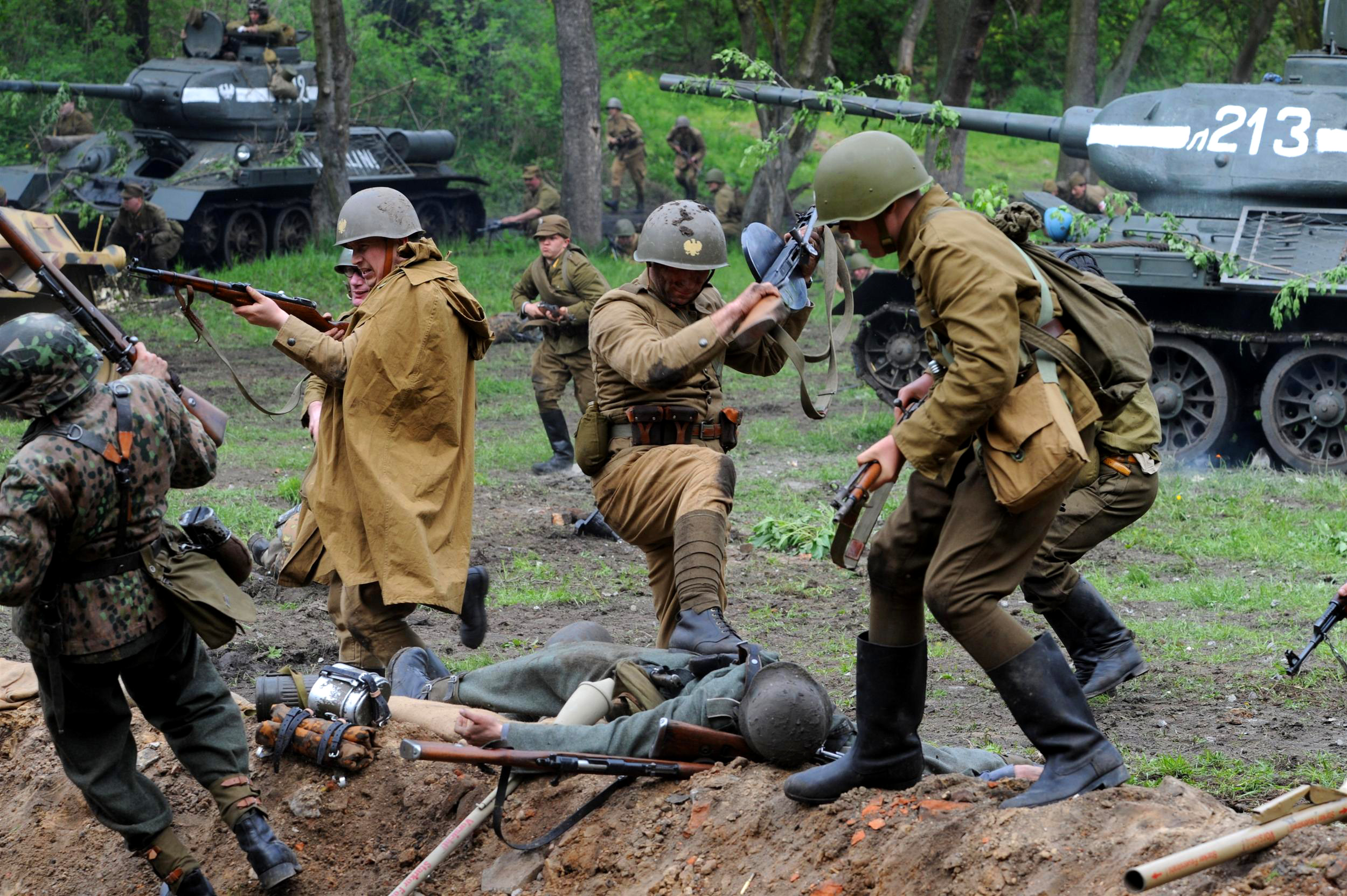 The historical reenactment of the Battle of Berlin (1945) at Modlin fortress